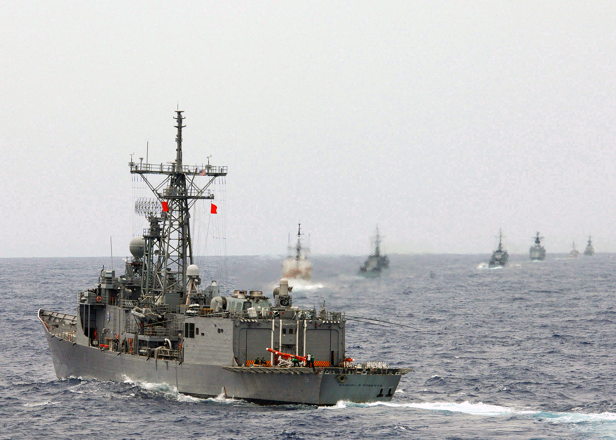 A port side stern view of the US Navy (USN) Oliver Hazard Perry Class: Guided Missile Frigate, USS SAMUEL B. ROBERTS (FFG-58) while the ship is underway in the Caribbean Sea, maneuvering into a formation along with naval and coast guard units from Colombia, Chile, Ecuador, Peru and Panama during Exercise UNITAS 46-05. The Exercise is a Southern Command sponsored Exercise with the objective of increasing interoperability and fostering cooperation among naval forces in the region.